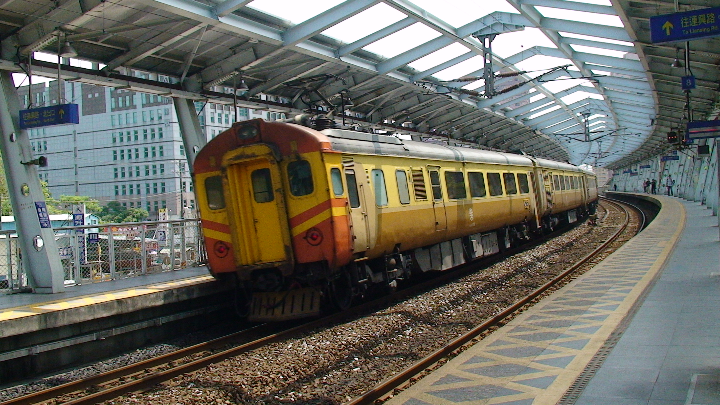 A set of TRA EMU100 series passing Platform 2 of Xike Station in New Taipei City, Taiwan.